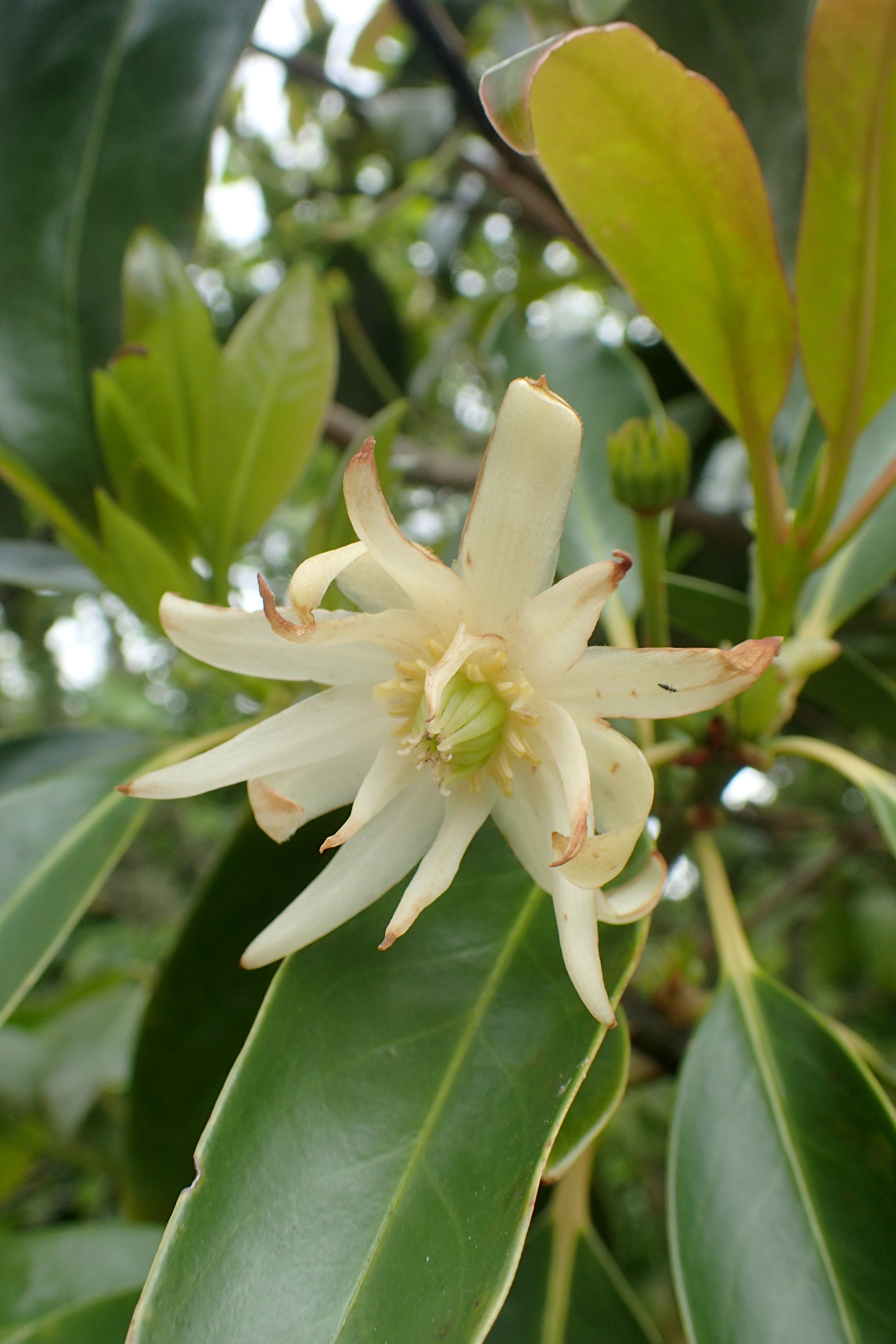 Illicium majus in Auckland Botanic Gardens